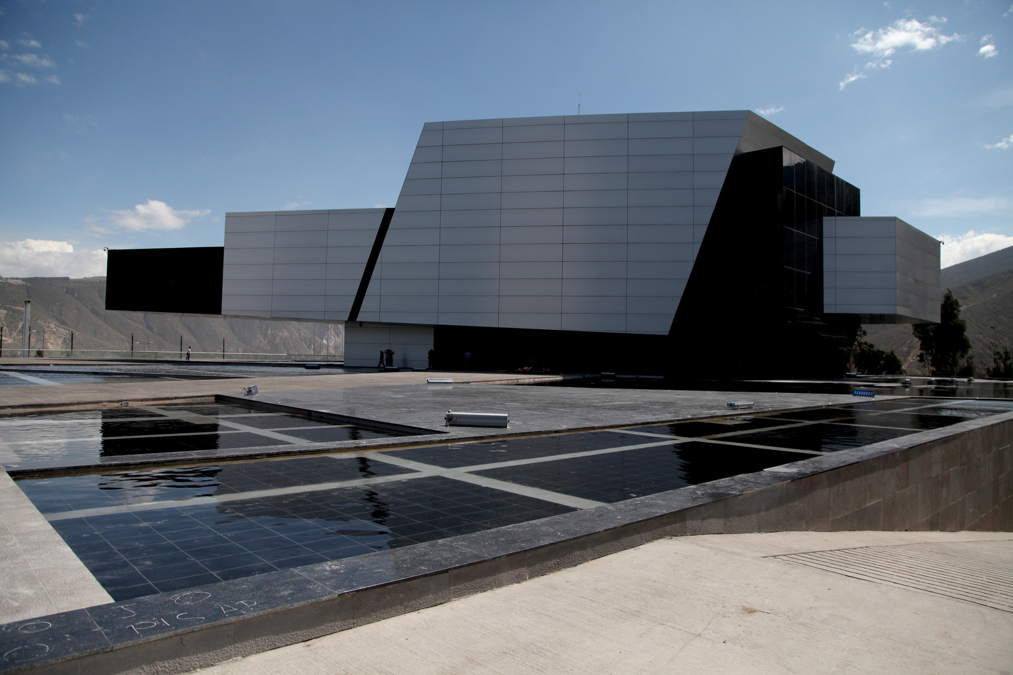 Quito (Ecuador), 28 de noviembre 201. Esta mañana lel Secreatiro General de UNASUR, recorrió el edificio próximo a inaugurarse el 5 de diciembre. Foto: Luis Astudillo - Cancillería del Ecuador.